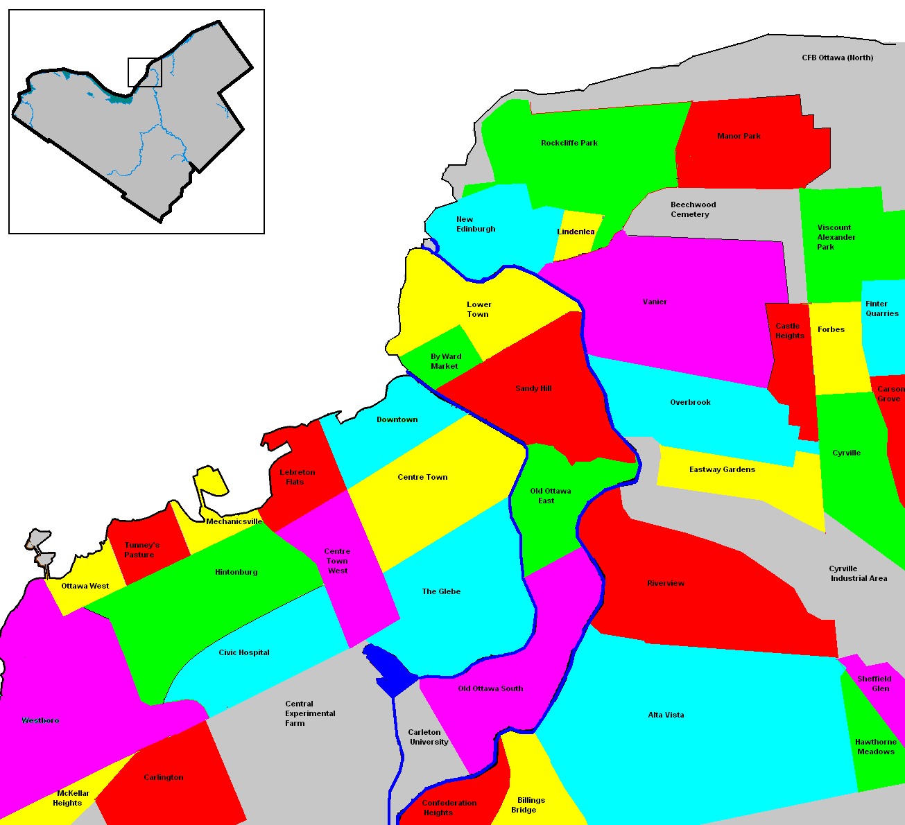 created from a map by User:SimonP